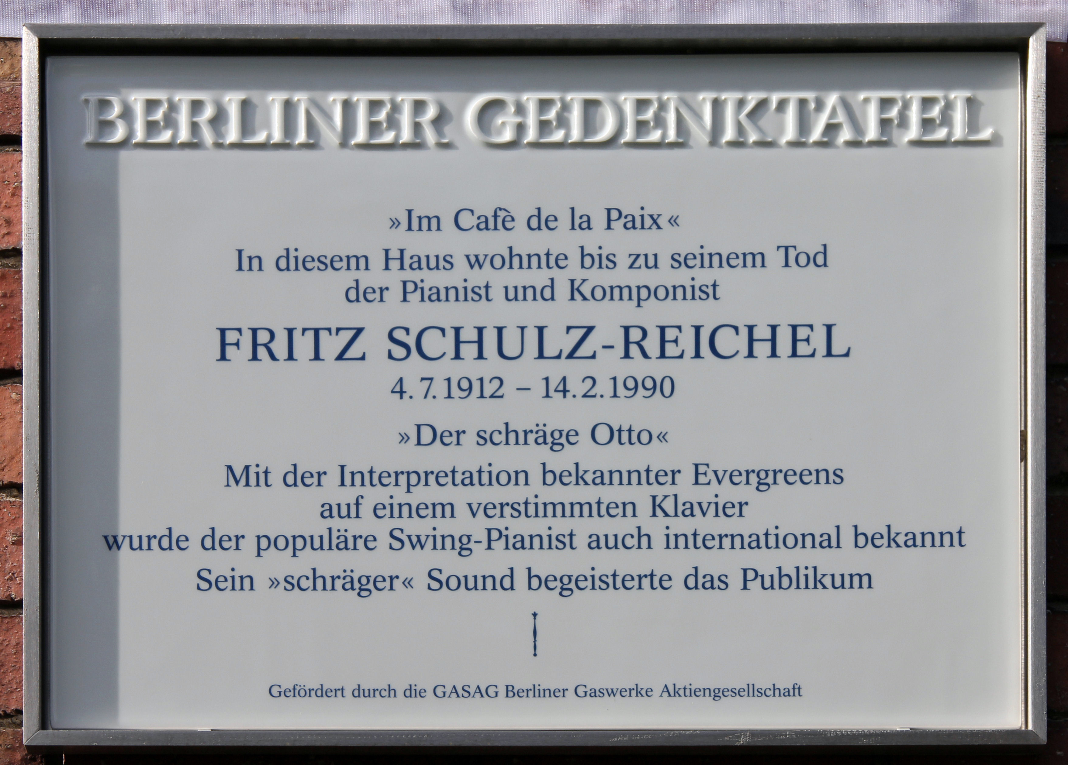 Berlin memorial plaque, Fritz Schulz-Reichel, Gotha-Allee 19, Berlin-Westend, Germany